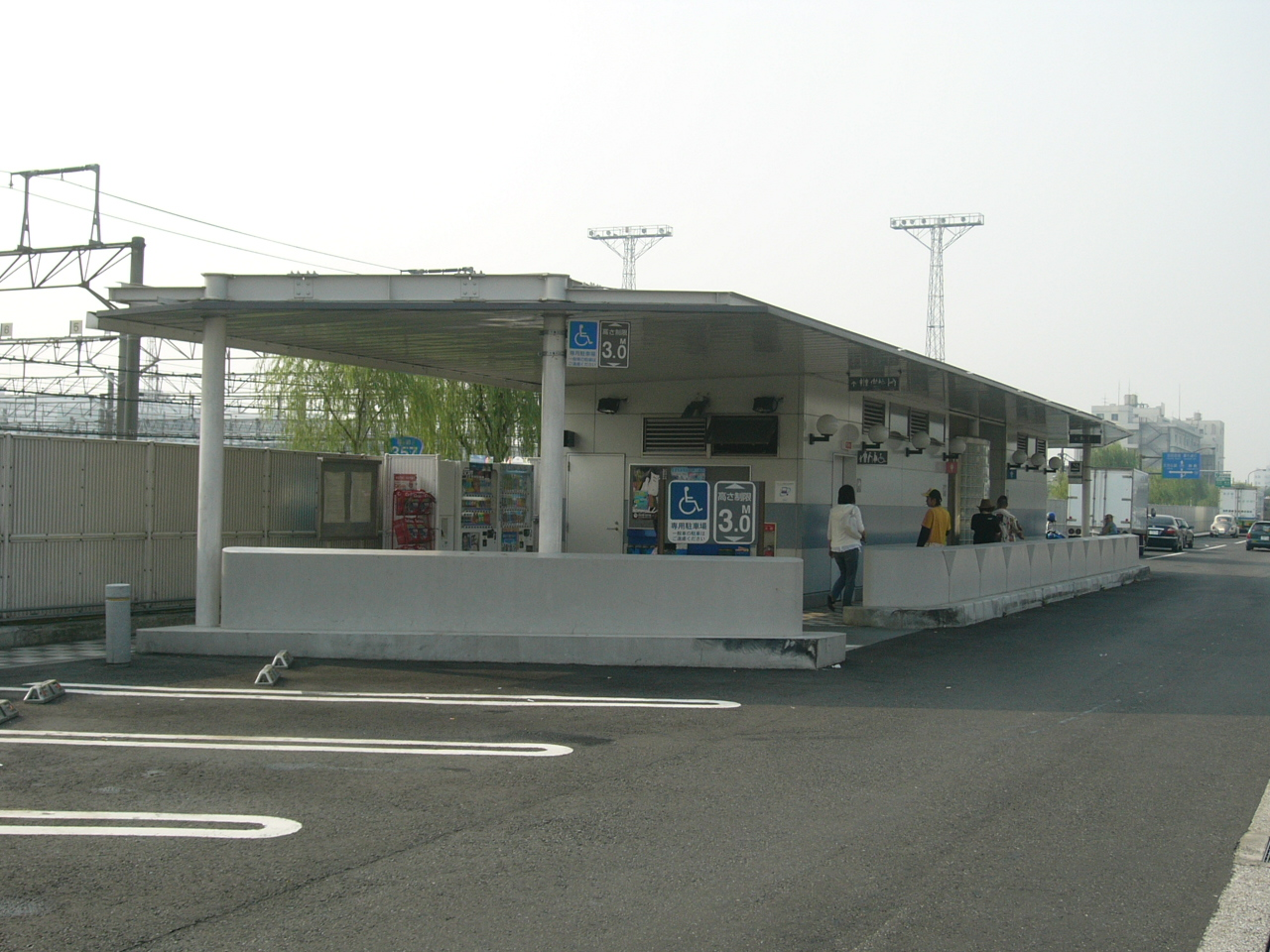 Oi Parking Area (West)